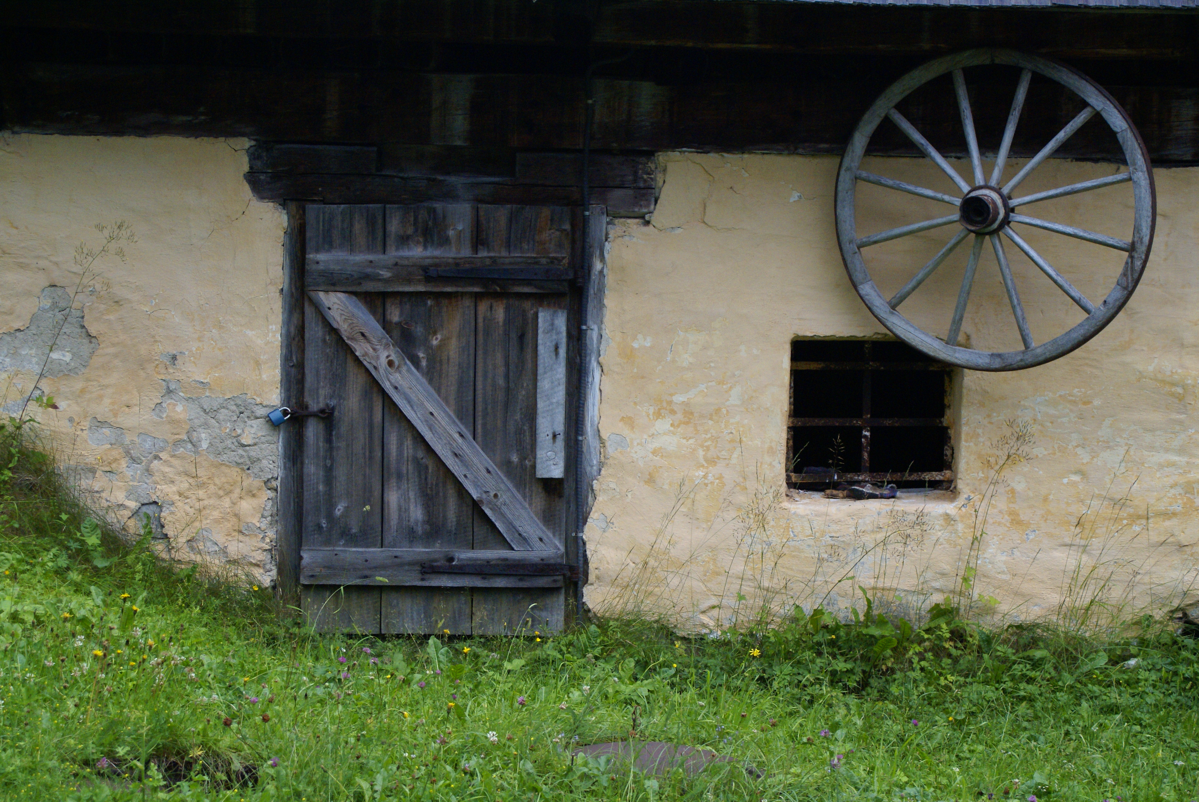 Open air museum of typical slovakian old Orava village, Zuberec, West Tatras, Slovak Republic